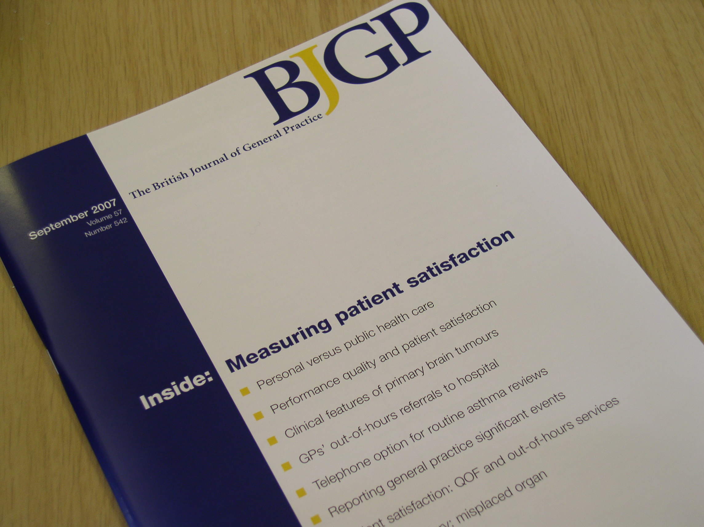 Front cover of September 2007 issue of the RCGP's British Journal of General Practice